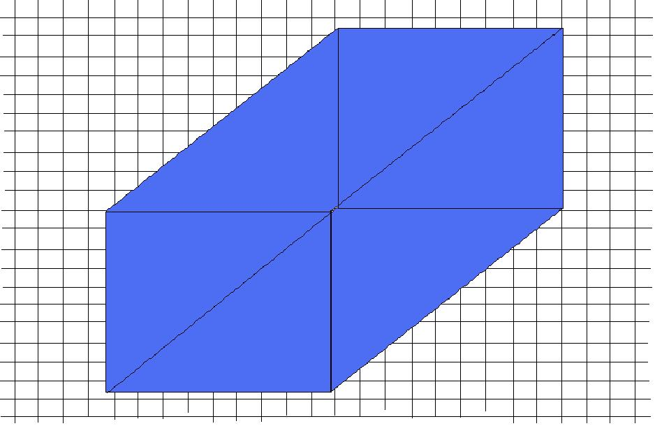 This is a graphical representation of a cuboid (author’s text: “three-dimensional rectangle”) made in a grid sheet